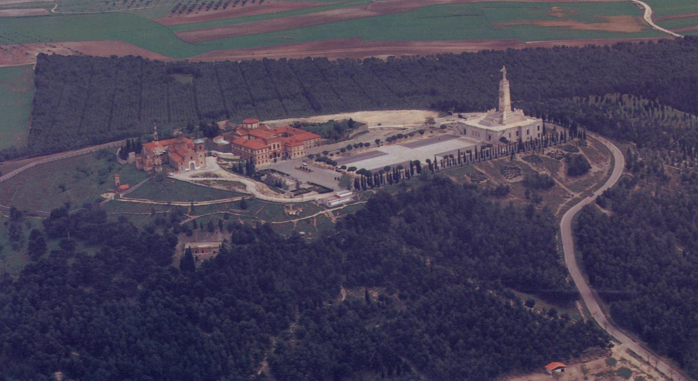 Hill of the Angels, Getafe, (Madrid), Spain Author: Miguel303xm Date: April 14th, 2005 Place: Hill of the Angels, Getafe, Madrid, Spain Origin